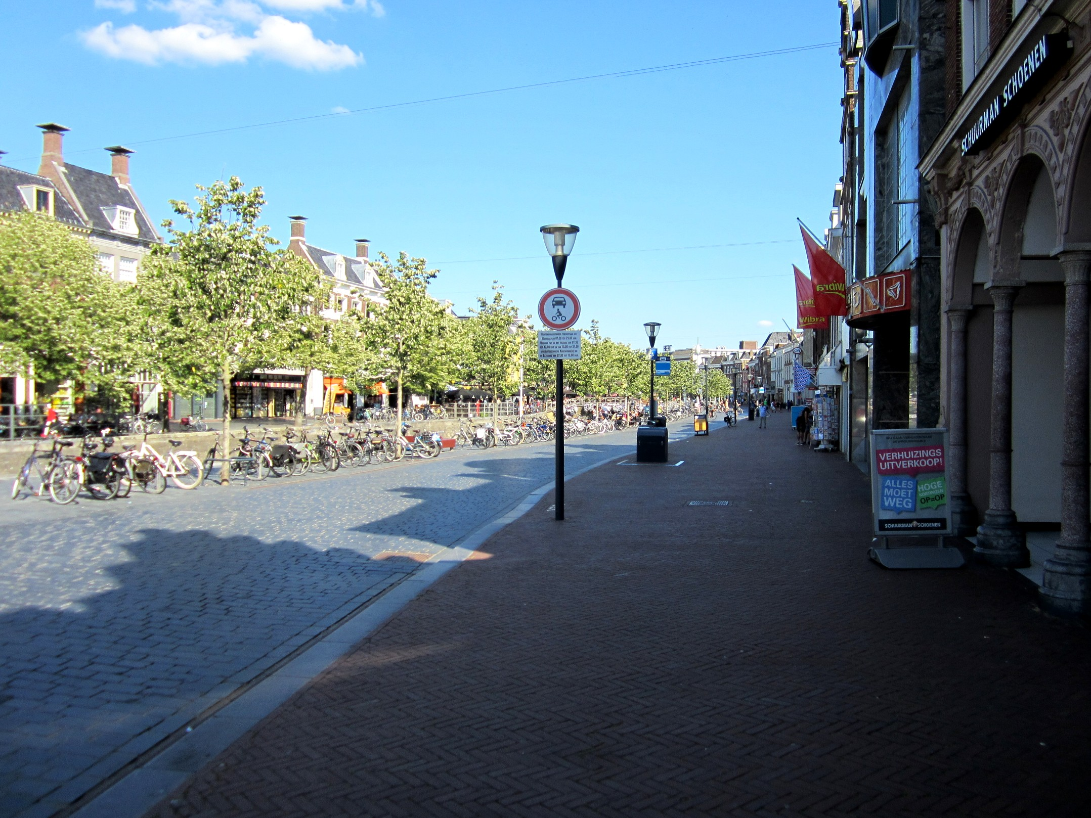 Nieuwestad (Frisian: Nijstêd), the main shopping street in Leeuwarden/Ljouwert, Friesland, the Netherlands. Photograph taken on the south side of the canal which divides the street; this side is known as the "busy side", as most shops are located here. The other side is the "quiet side", where there are some shops, but primarily cafés and such.